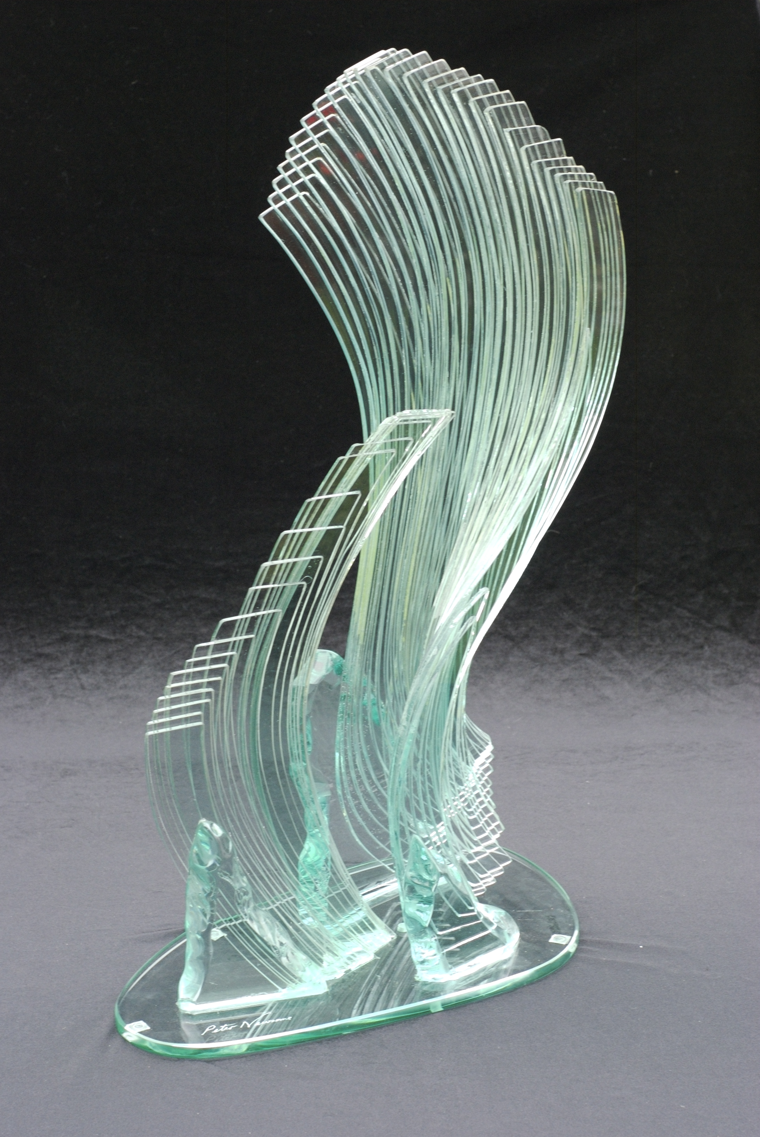 glass sculpture Wind Song Glass by Peter Newsome, United Kingdom